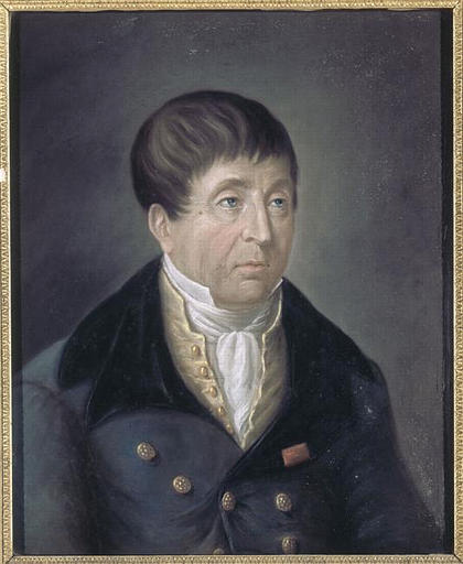 Claude Joseph Rouget de Lisle (1760-1836), author of La Marseillaise